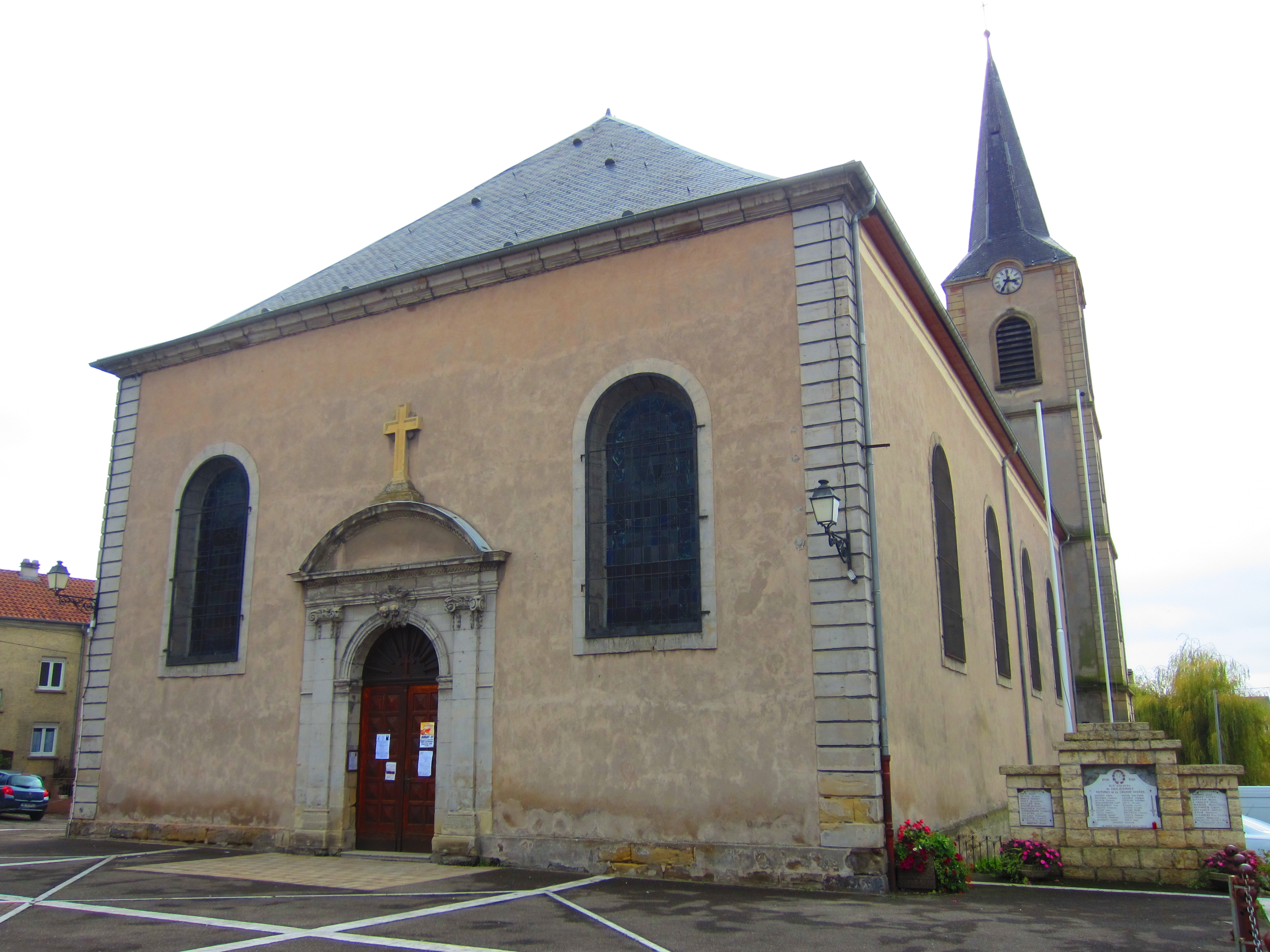 Faulquemont church